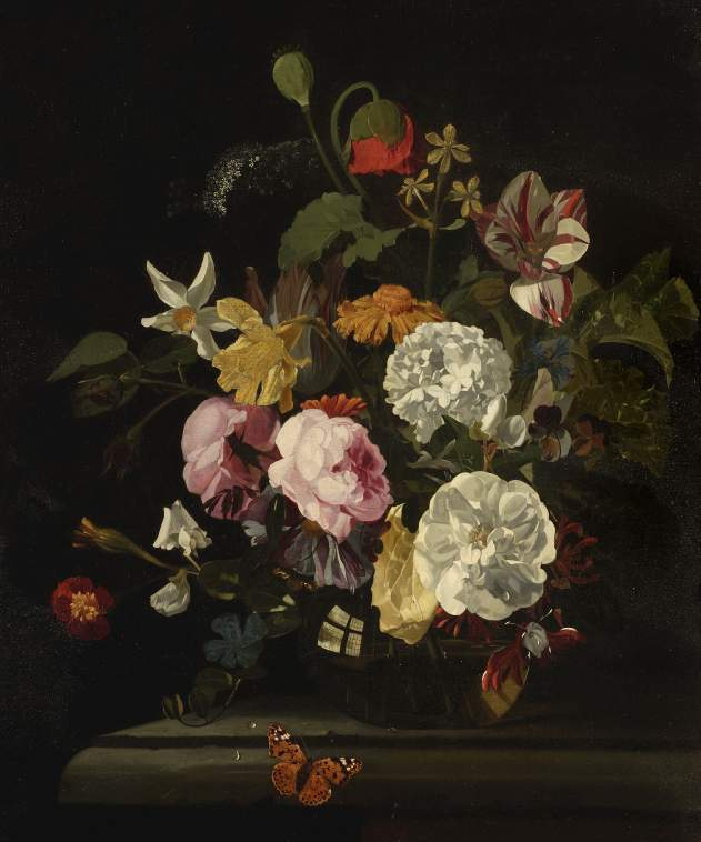 A vase of flowers